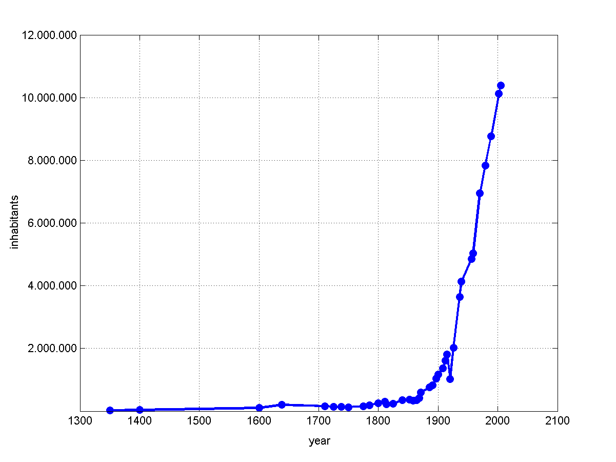 Moscow's population (1350-2005).